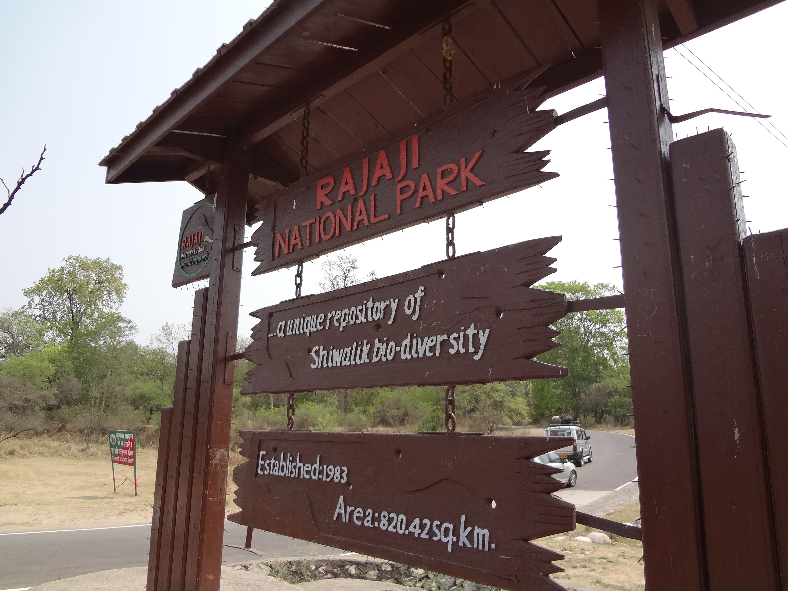 A unique sanctuary spread over 820 Sq.Km. Rajaji National Park, Rishikesh, Uttaranchal